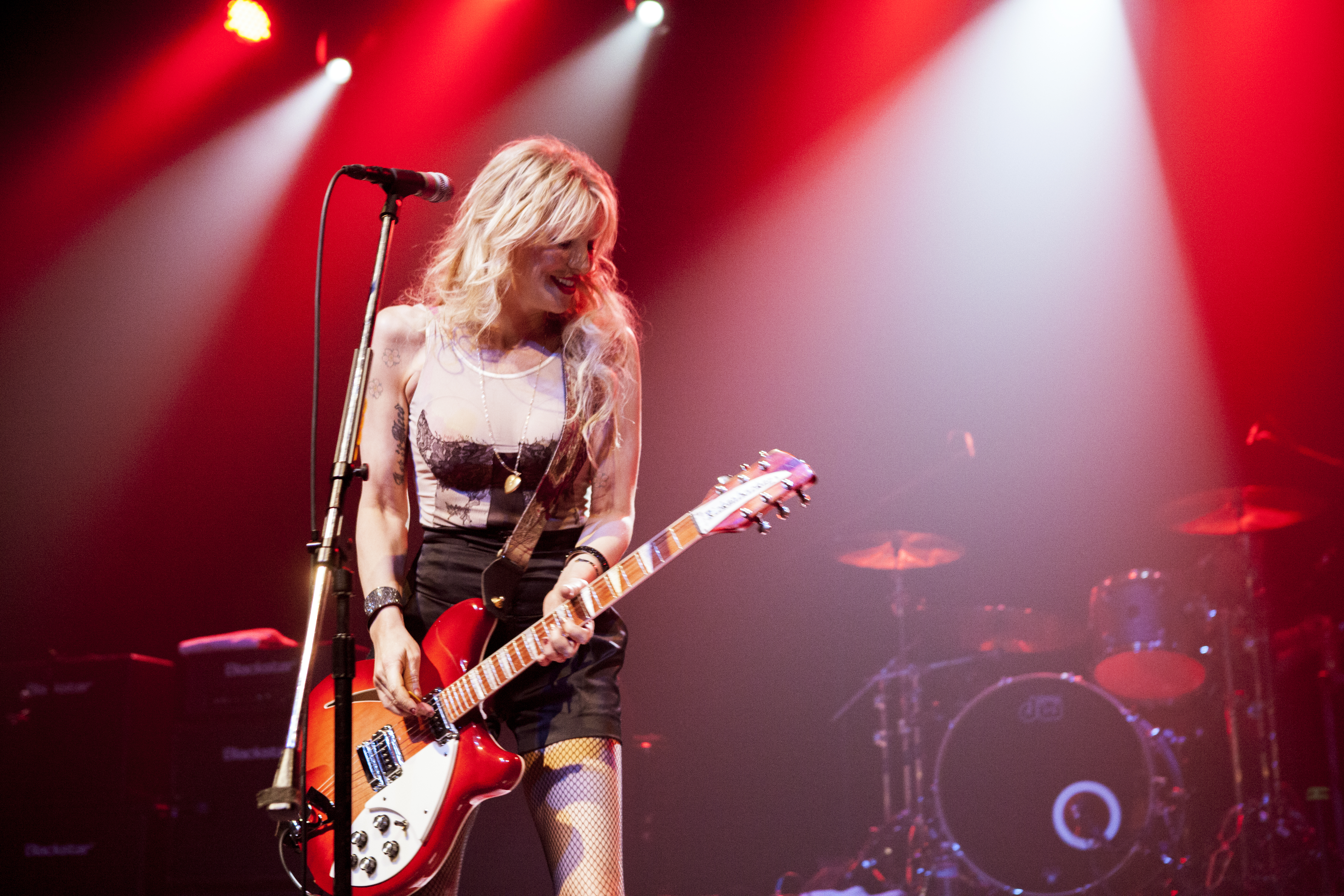 @ Majestic Ventura Theatre 5/19.